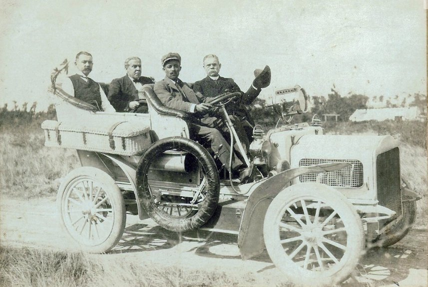 Valentin Wolfenstein in Cuba looking at real estate